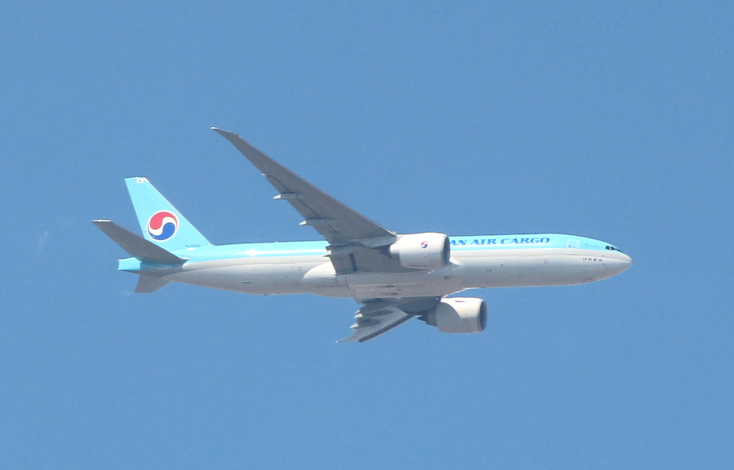 Korean Air Cargo HL8045 (Boeing 777) on final approach to VIE airport, May 2018.